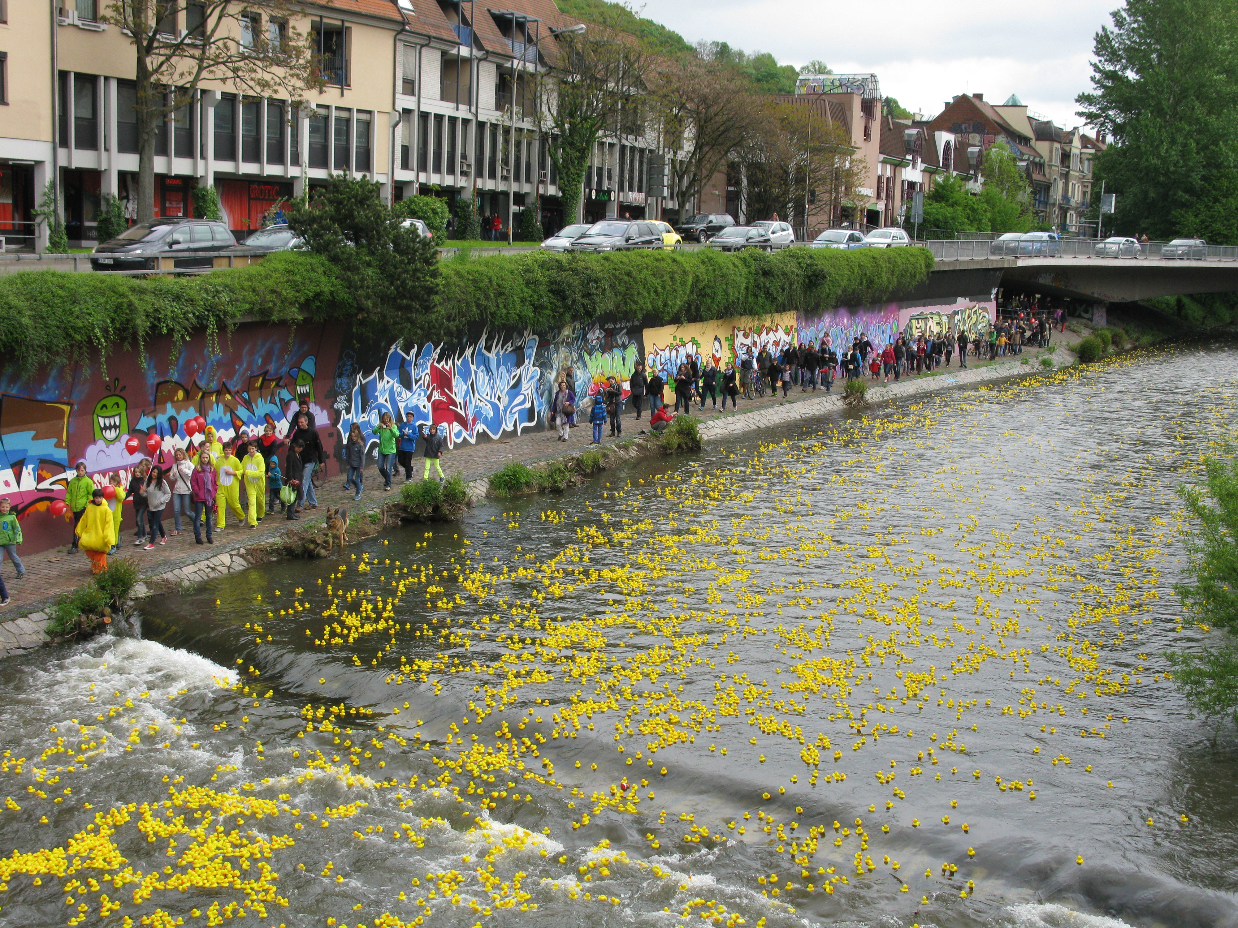 Duck Racing on the Dreisam river in Freiburg, Germany